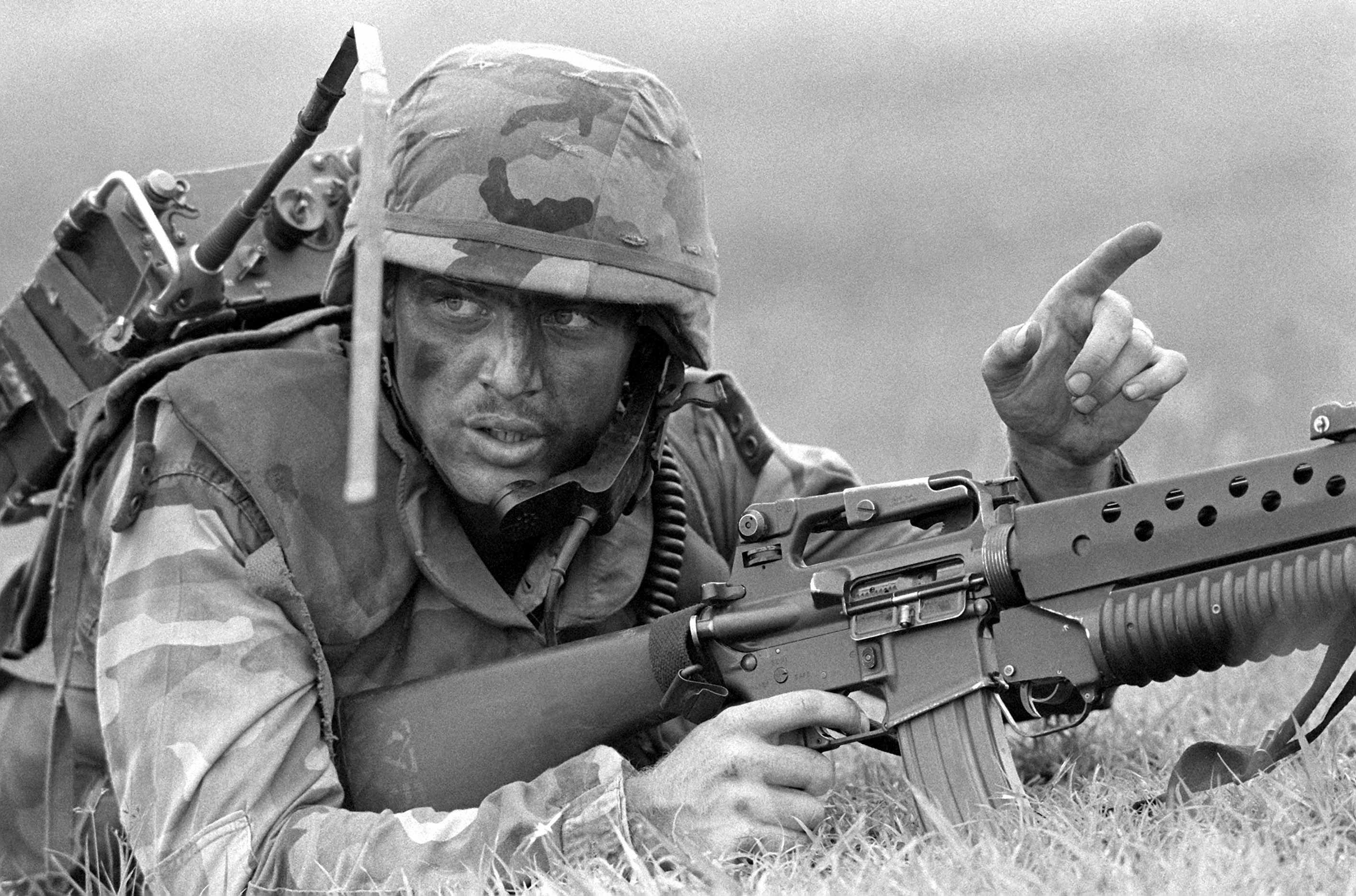 Corporal Terry Lambert, a fire team leader from 2nd Platoon, Company D, 2nd Light Armored Infantry Battalion, directs the members of his team during a live-fire competition at Empire Range. Lambert is carrying an AN/PRC-77 radio and is armed with an M16A2 rifle equipped with an M203 grenade launcher. Learn More Follow on Twitter Learn More Follow on Twitter